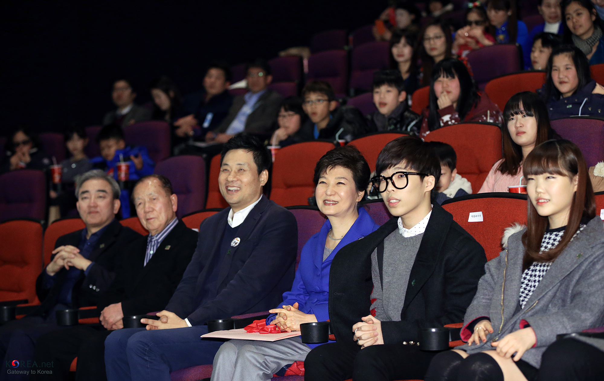 President Park Geun-hye smiles as she listens to an introduction to the animated movie “The Nut Job,” on January 29.